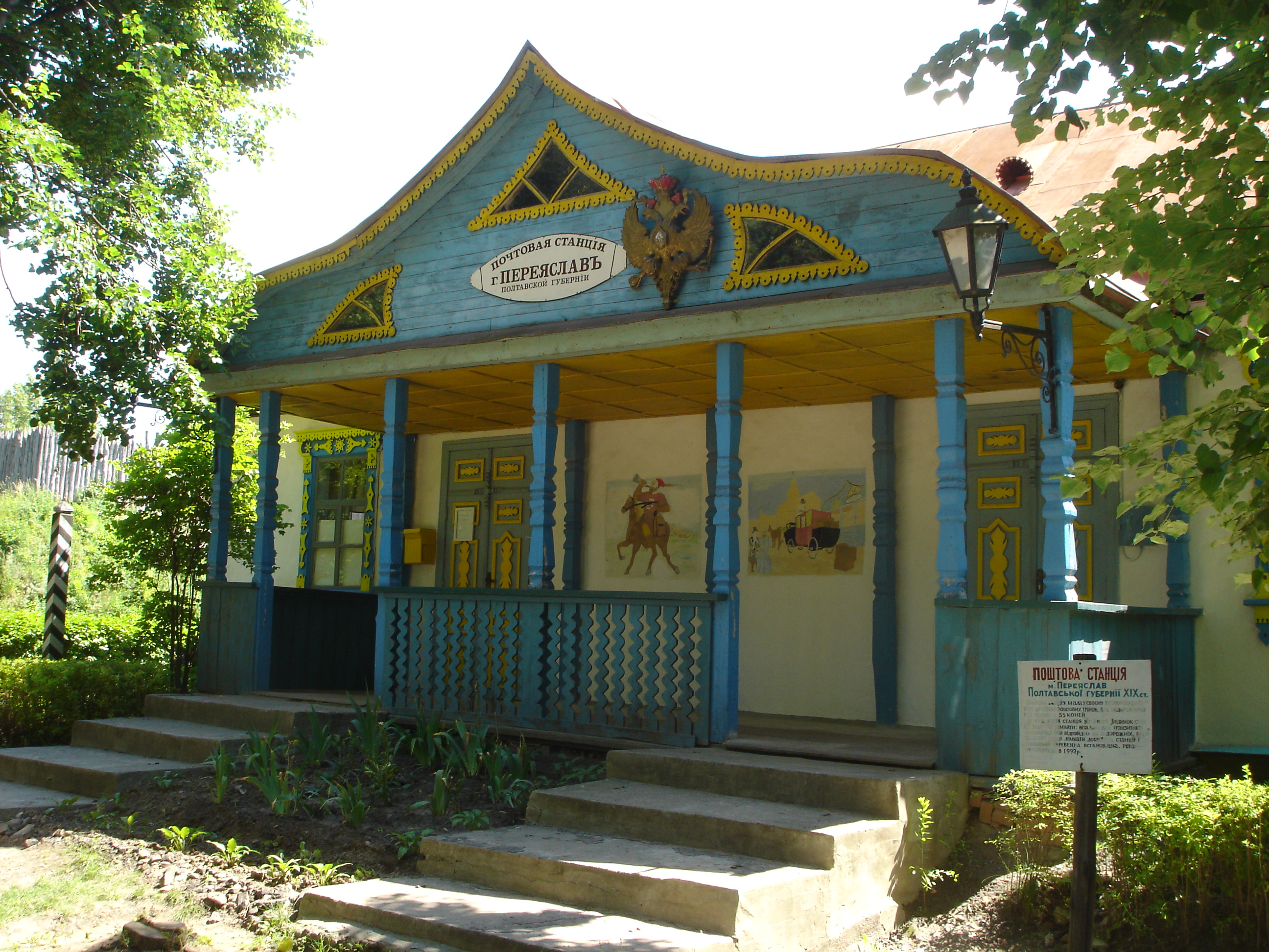 An old Ukrainian Post Office at the Museum of folk architecture and way of life of Middle Naddnipryanschina in Pereiaslav-Khmelnytskyi.